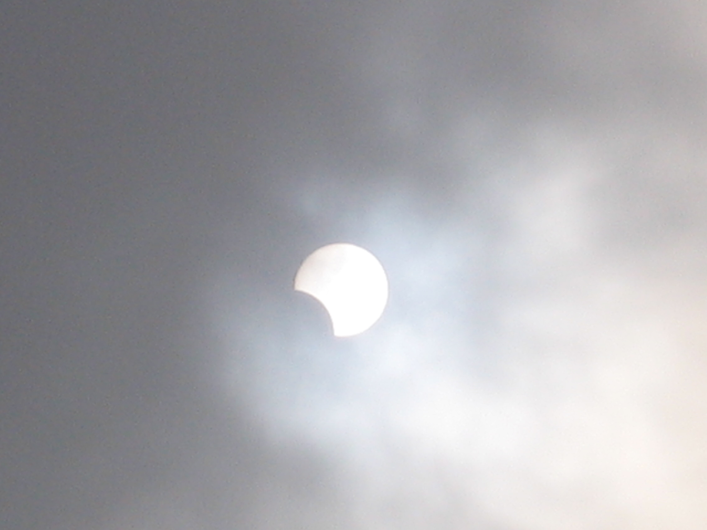 Partial solar eclipse of December 26, 2019 from Hefei, Anhui, China.